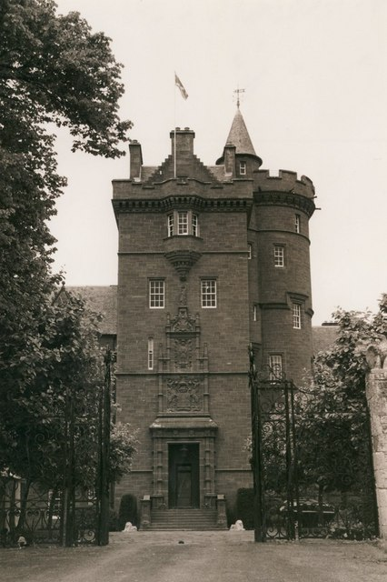 Beaufort Castle Ancient home of the Frasers. Front drive and main tower.